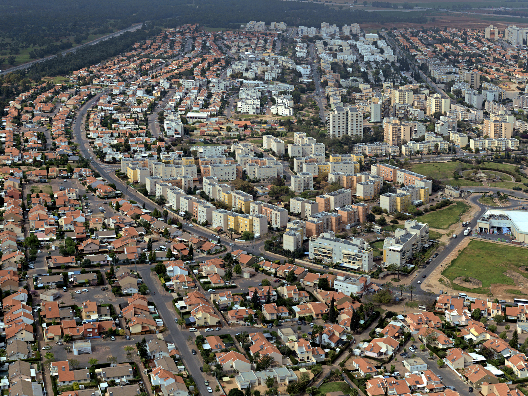 kiryat gat, Geography of Israel